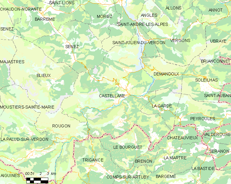 Map commune FR insee code 04039.png Légende